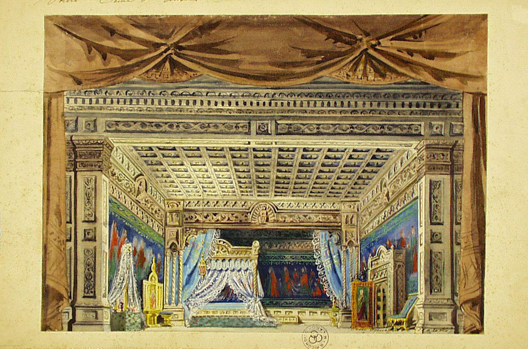 Otello set design for act 4. Teatro Costanza 1887 by Giovanni Zuccarelli